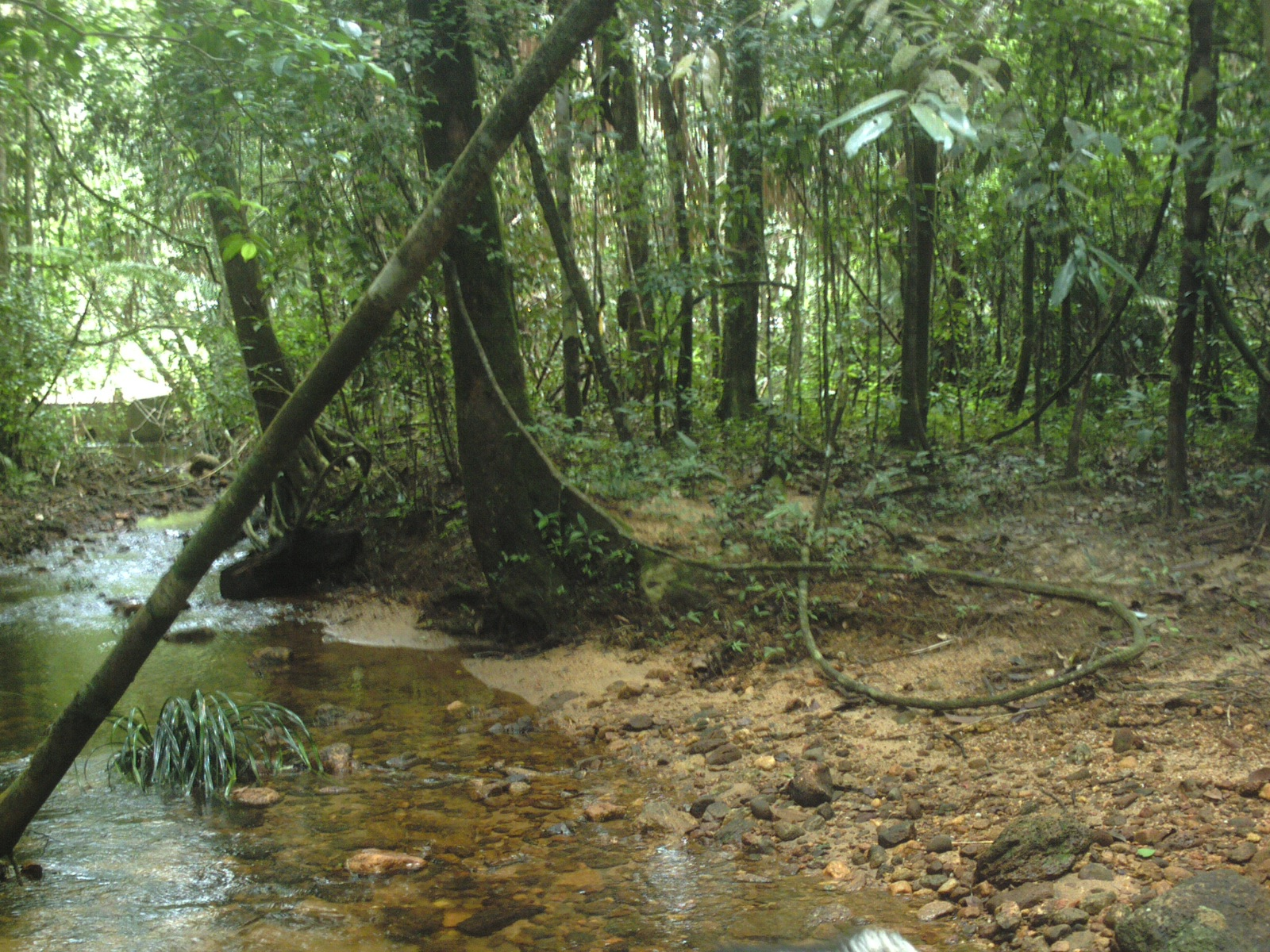 A water stream inside the deep forest of Sinharaaja, Shri Lanka.